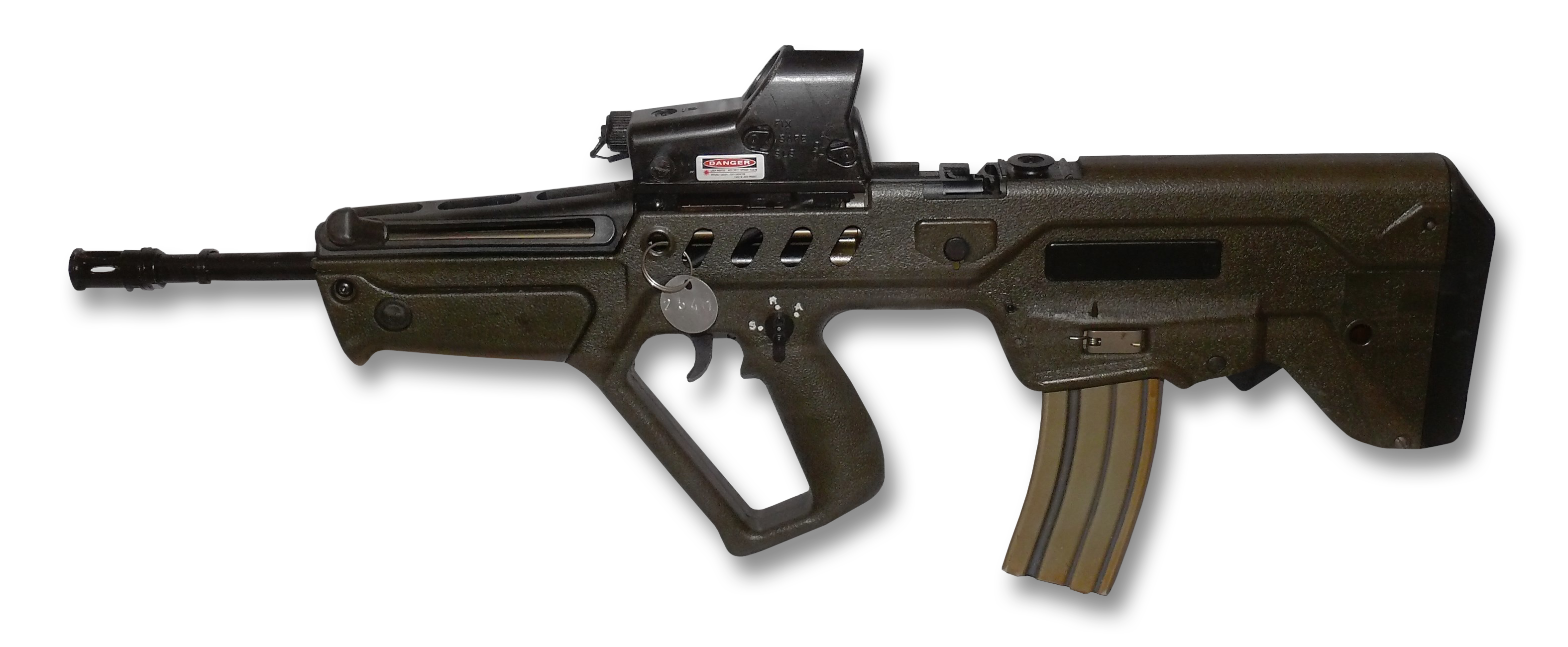 IMI/IWI Tavor TAR-21 bullpup assault rifle